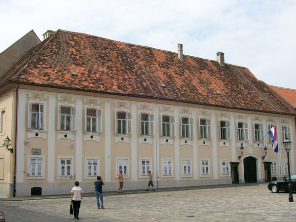 Main building - Croatian Goverment